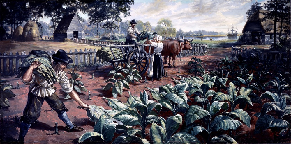 A conjectural painting of tobacco farming in Virginia, cira 1650. Based on research by J. Paul Hudson